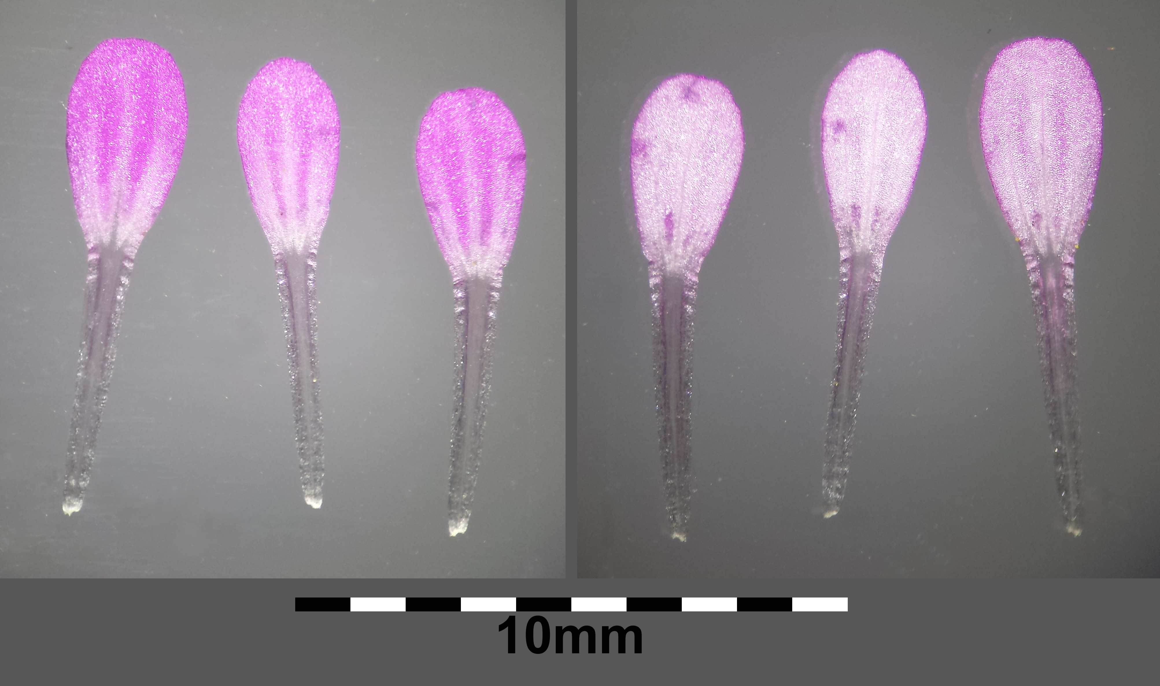 Petals, top and bottom side Taxonym: Geranium purpureum ss Fischer et al. EfÖLS 2008 ISBN 978-3-85474-187-9 Location: Jedlersdorf rail station, Vienna-Floridsdorf - ca. 160 m a.s.l. Habitat: ballast